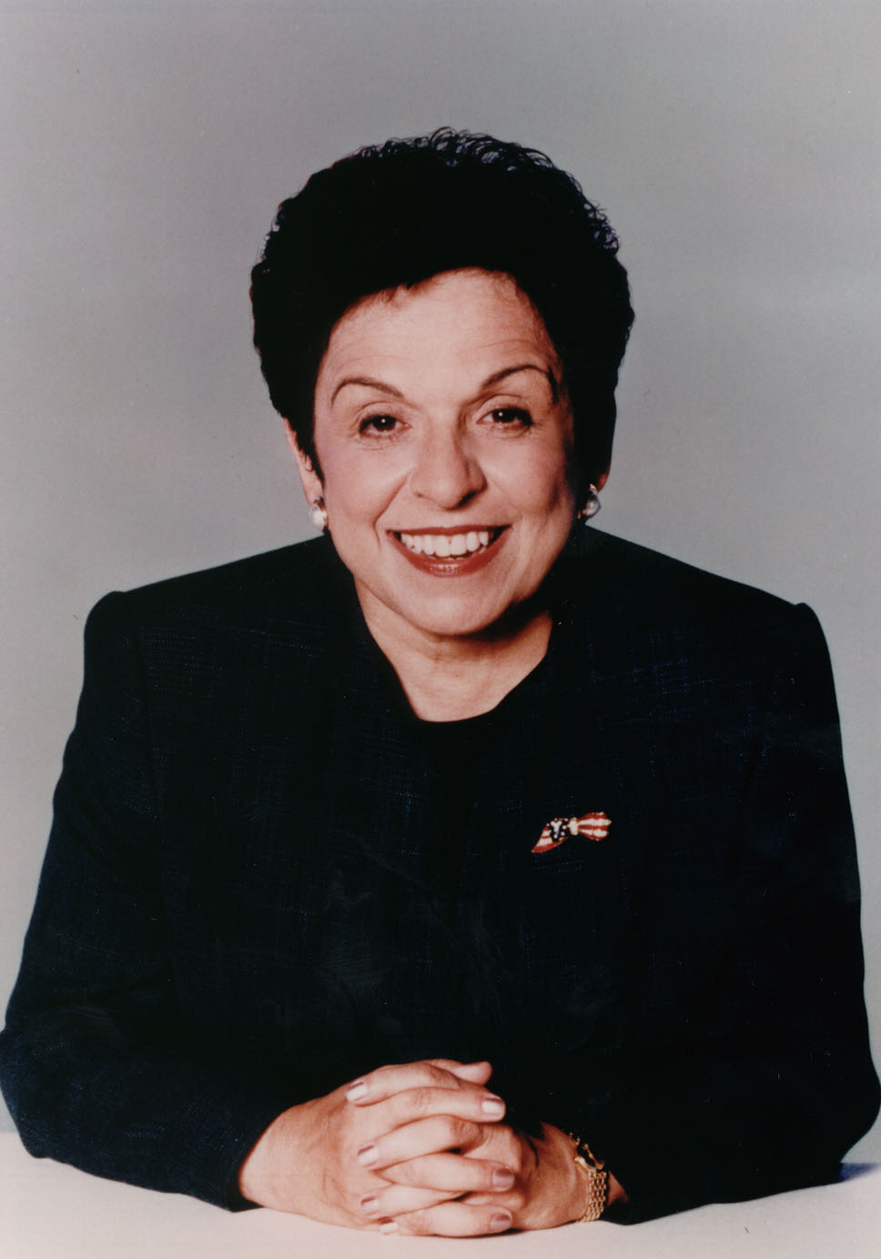 Official portrait of then-HHS Secretary Donna E. Shalala. Donna Shalala is currently the president of the University of Miami.